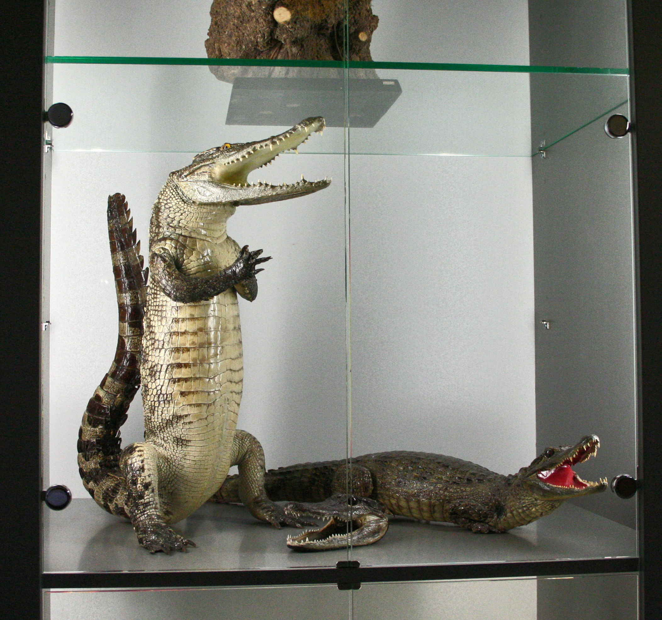 Stuffed crocodile in vitrine in zoological museum in Kaunas, Lithuania